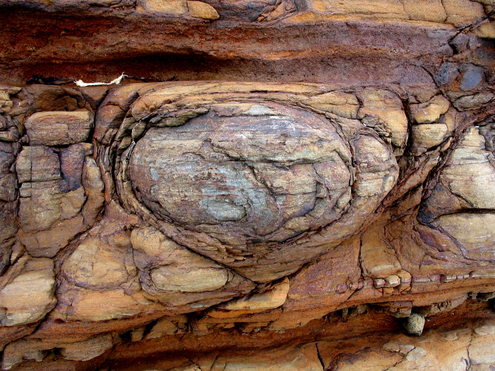 Weathered tuff of the "Tufs et Calcaires de Rosan" Formation of late Ordovician age at la pointe de Raguenez in Brittany, France.